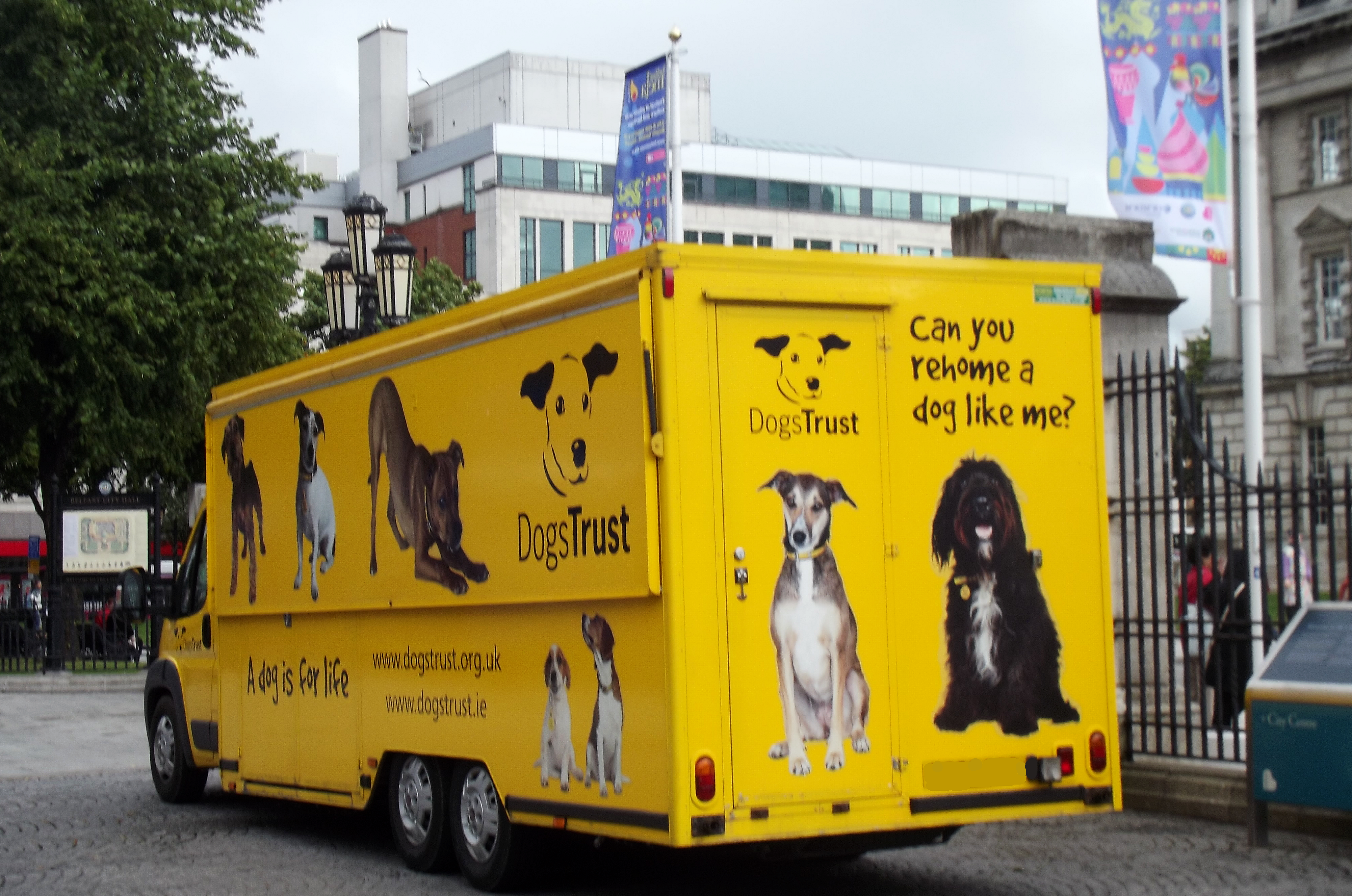 Dogs Trust van in Belfast